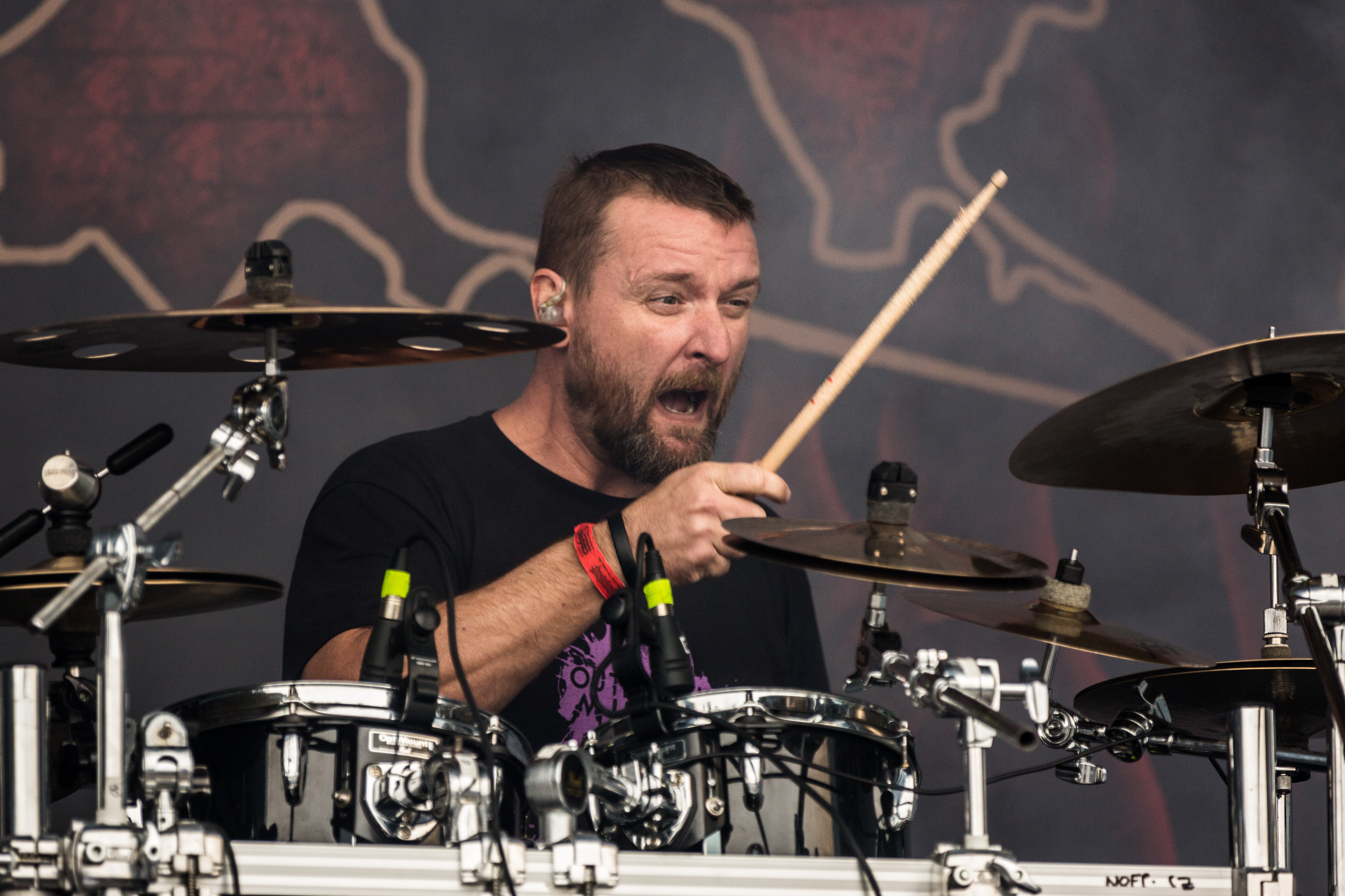 The Canadian technical death metal band Cryptopsy at the Party.San Metal Open Air 2017 in Obermehler-Schlotheim/Germany.